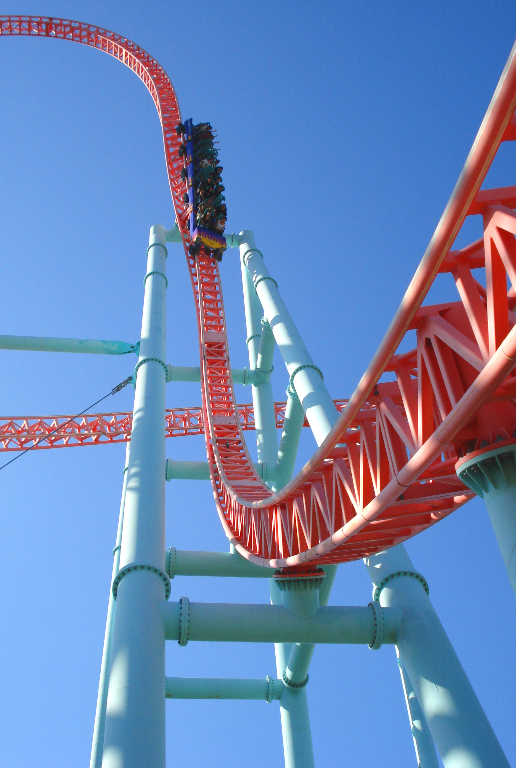 yes, i did go on it!.